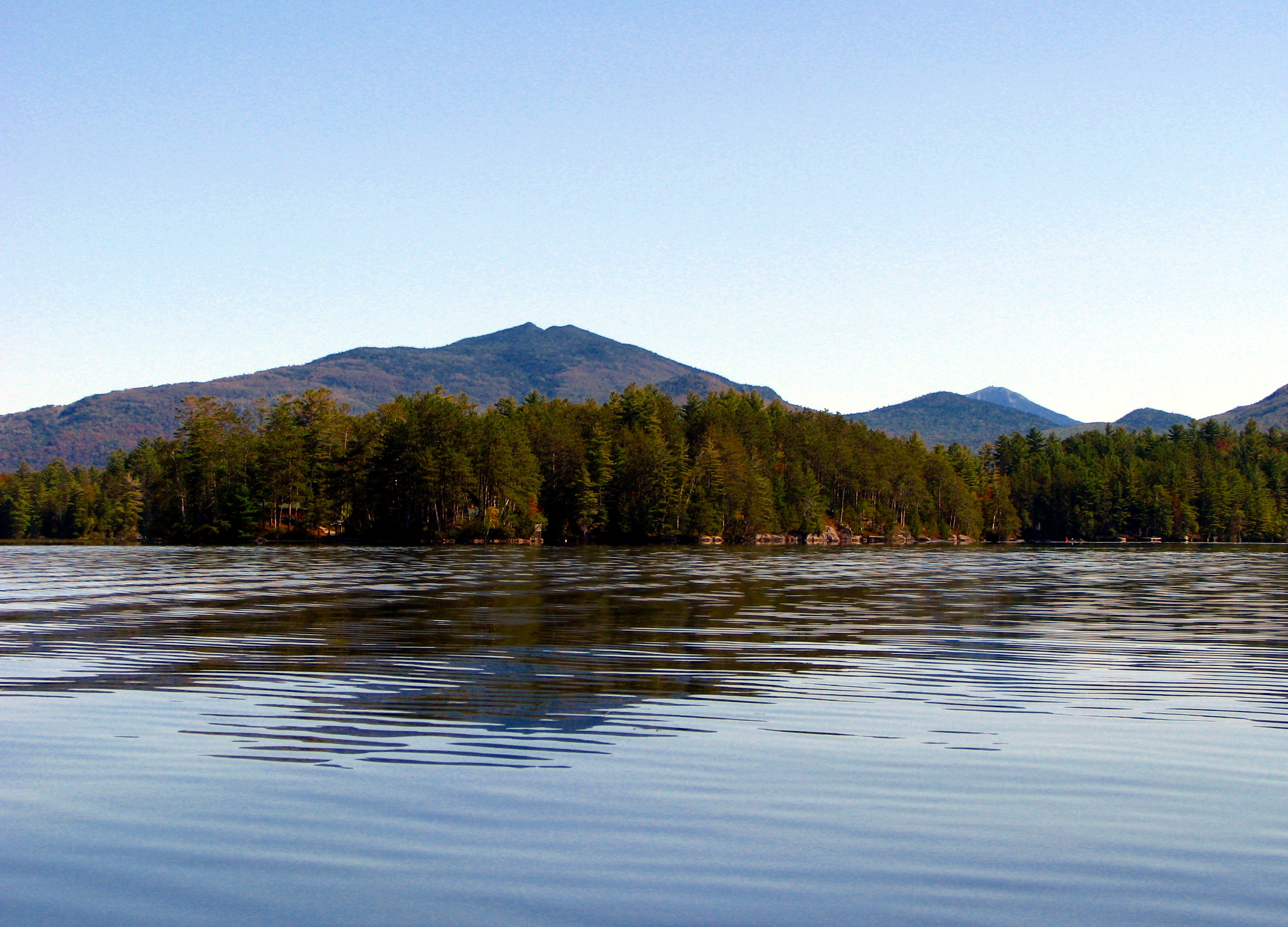 McKenzie Mountain from Oseetah Lake. Whiteface Mountain in the distance.